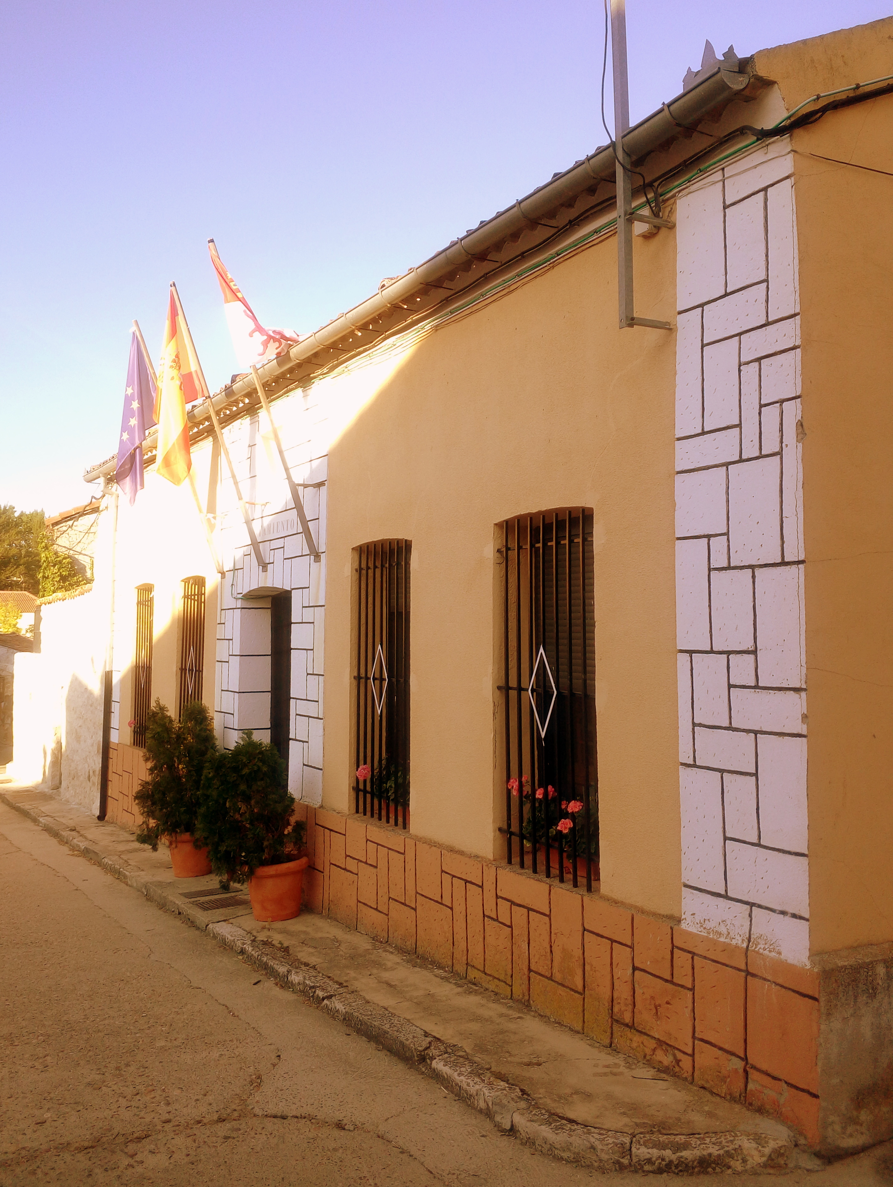 Town hall in Laguna de Contreras, Segovia, Spain.